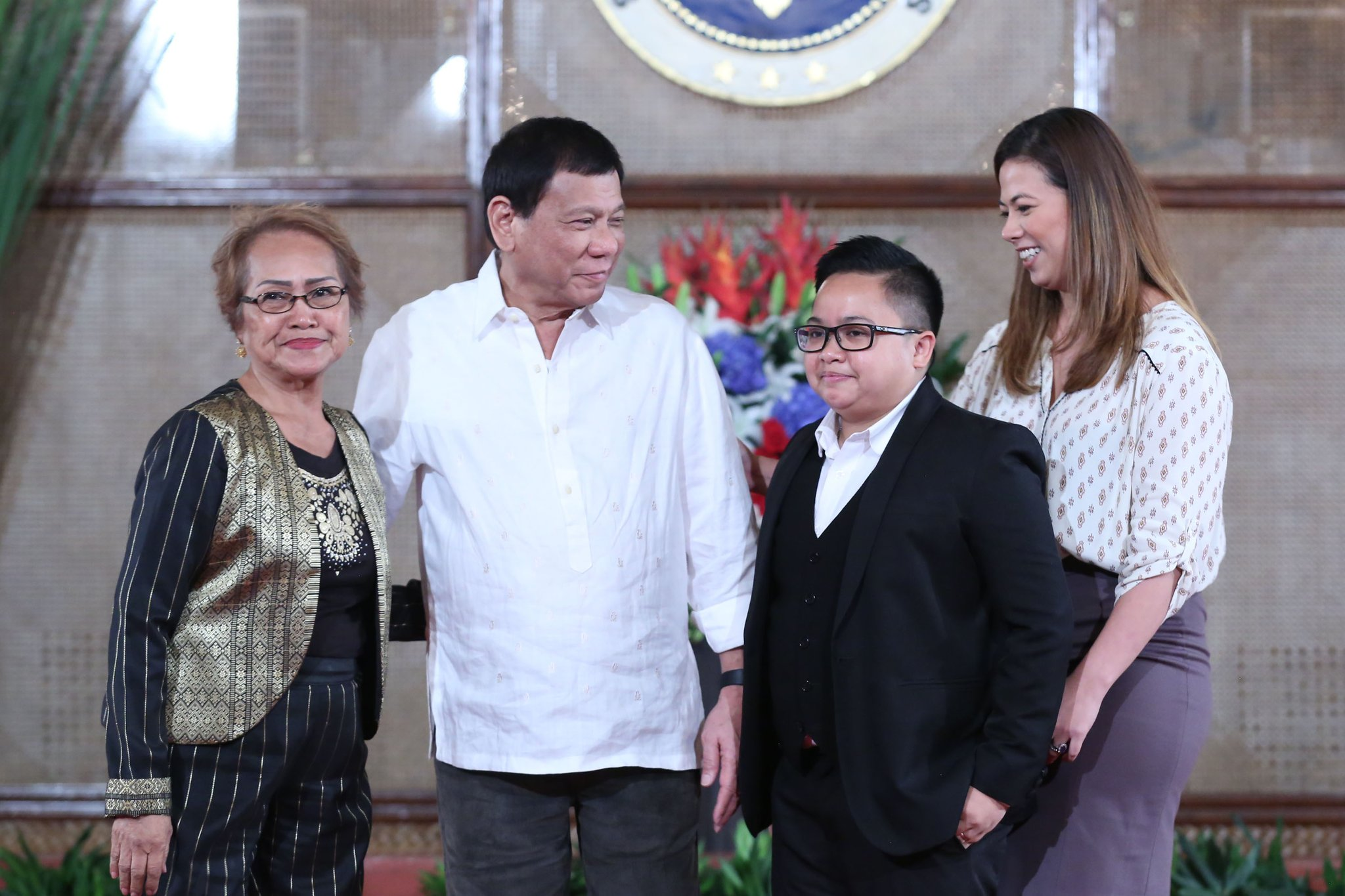 President Rodrigo Duterte poses for a photo with National Youth Commission Chairperson Cariza Yamson Seguera and Film Development Council Chairperson Mary Liza Diño after the oath-taking ceremony at the Rizal Hall in Malacañan Palace on August 15.